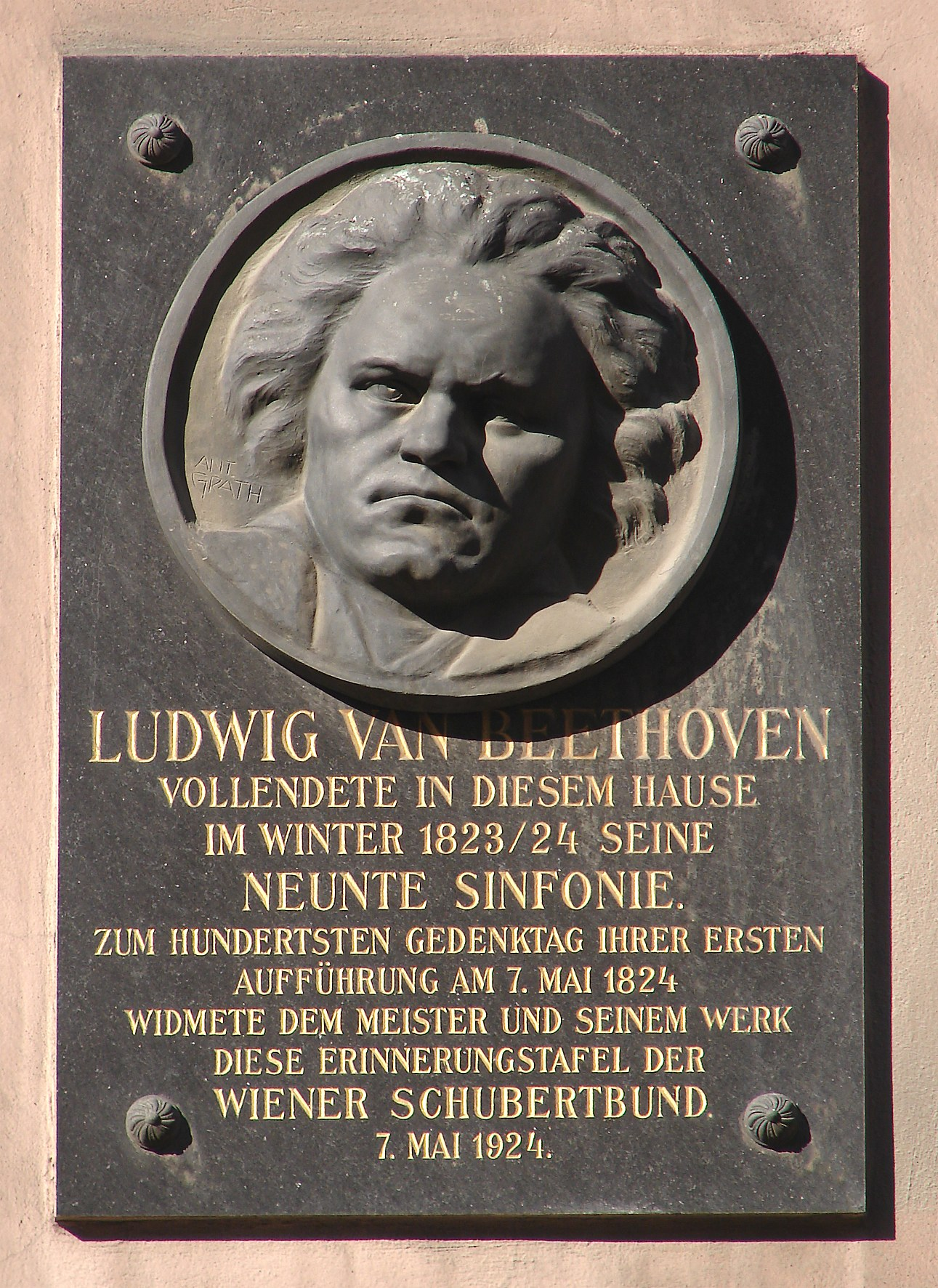 Beethoven second plate installed at Building Ungargasse No. 5, 1030 Vienna, Austria. (See picture of the building Image:Haus-Ungargasse-Nr5.jpg) See other plate Image:Ungargasse-Nr5-Tafel1-1.jpg Text on the plate: "In this house Ludwig van Beethoven finished his Symphony No. 9 during winter 1823/24. In memorial of the centenary of the world premiere on May, 7 1824 the plate was dedicated to the master and his work by the "Wiener Schubertbund" on May 7, 1924.